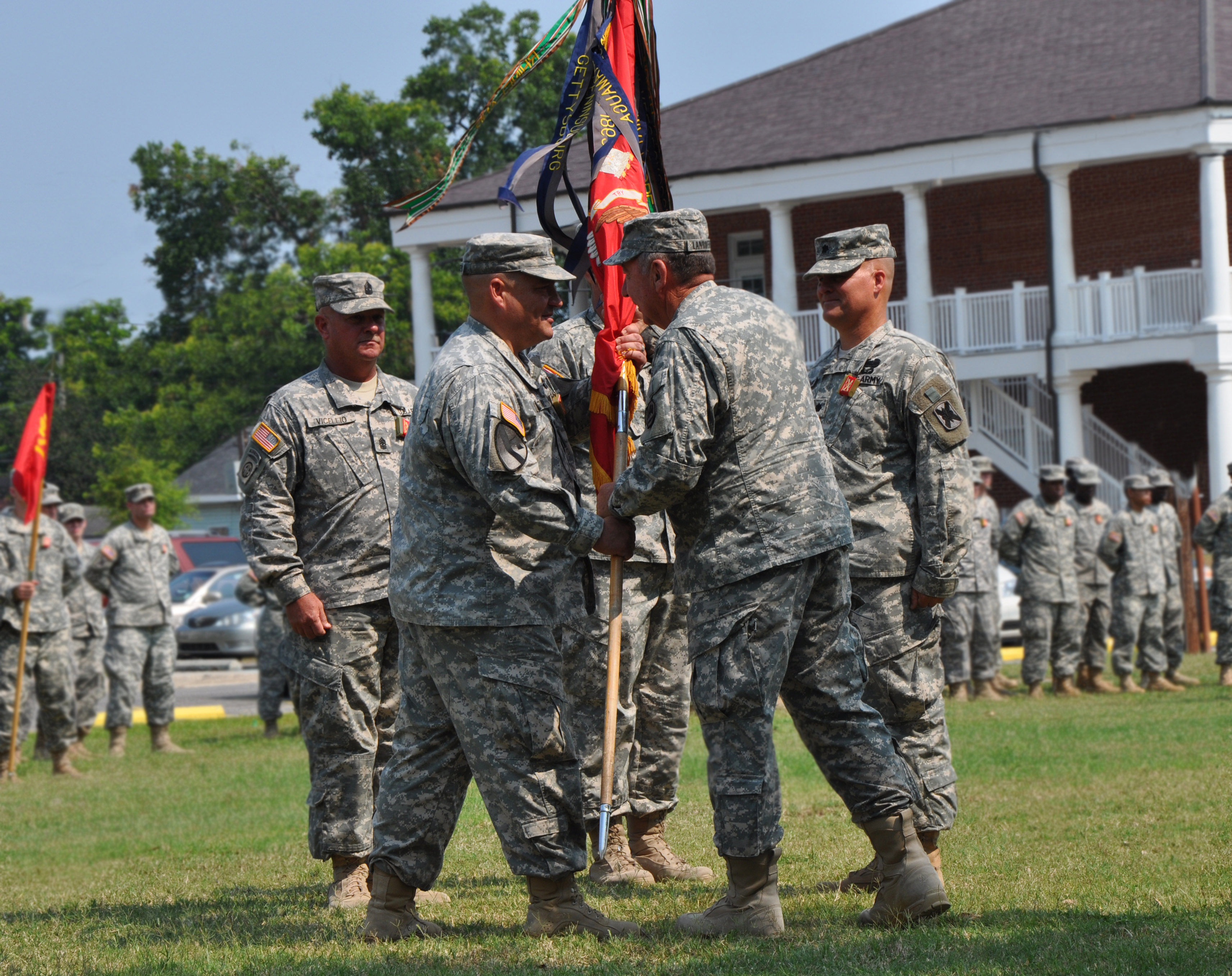 Change of Command Ceremony 141st Field Artillery Regiment(Washington Artillery) June 2011